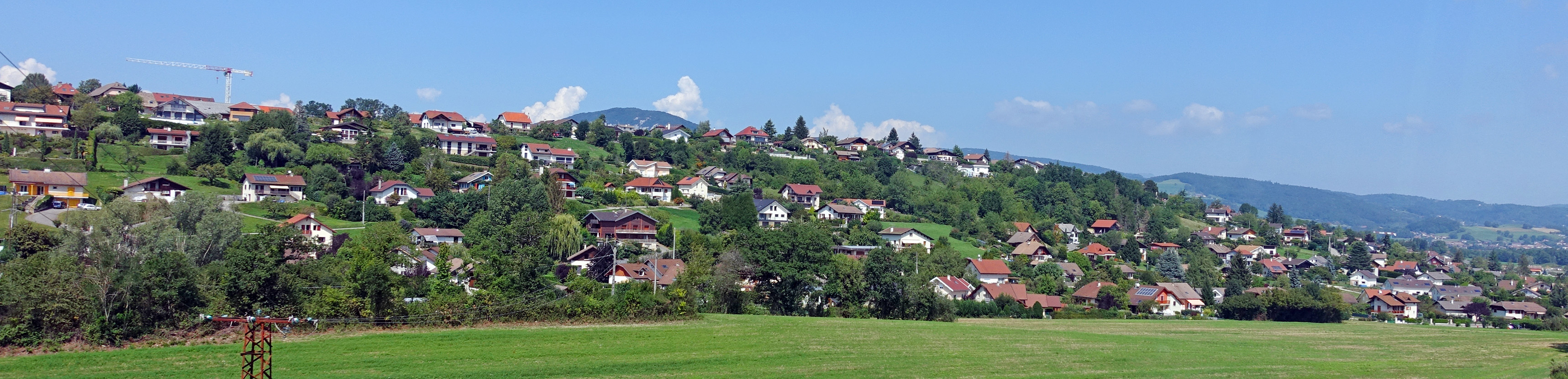 Poisy, France.